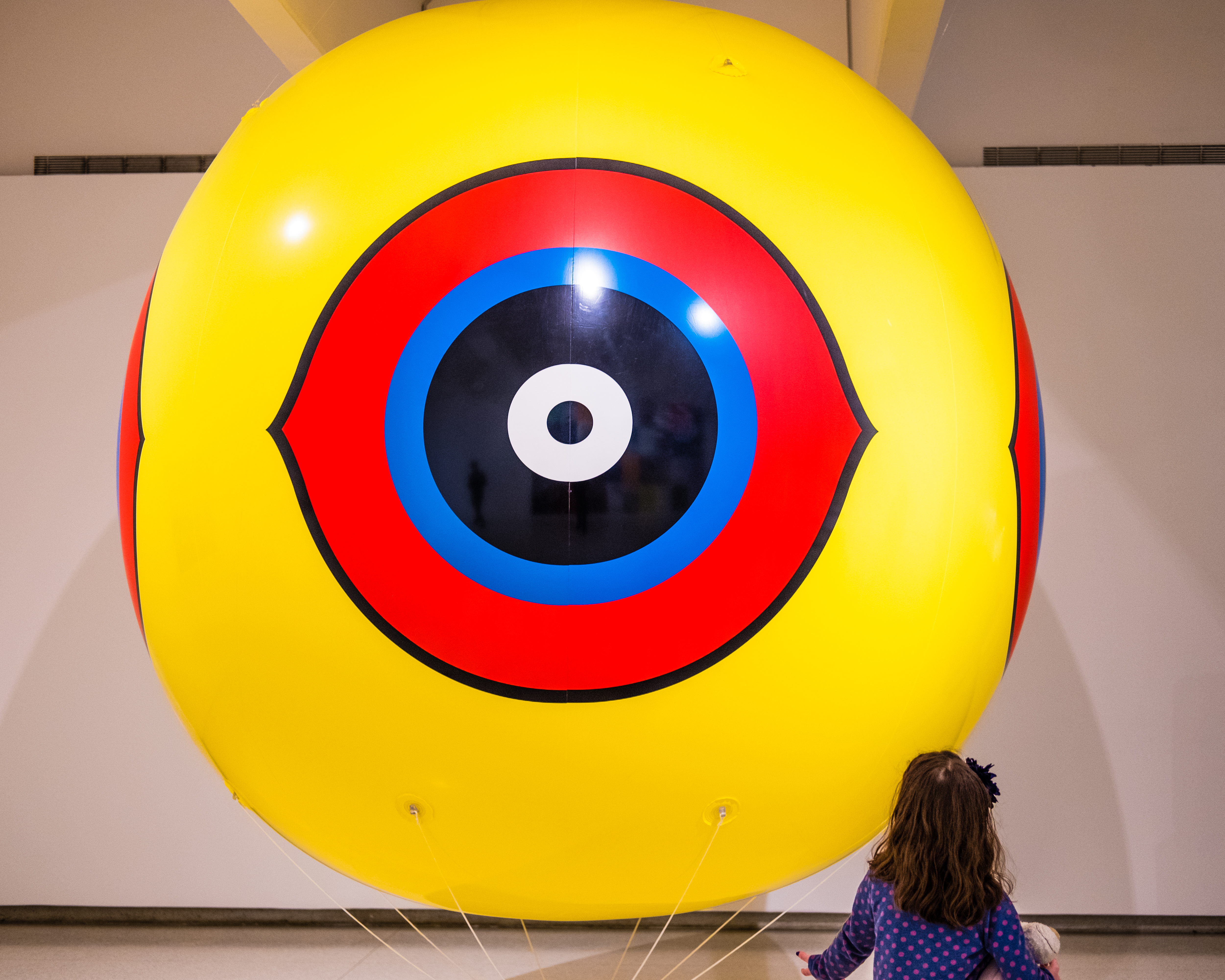 Postcommodity (Ravon Chacon, Cristóbal Martínez, and Kade L. Twist), N12, 2015 #artinstitutechi #museum